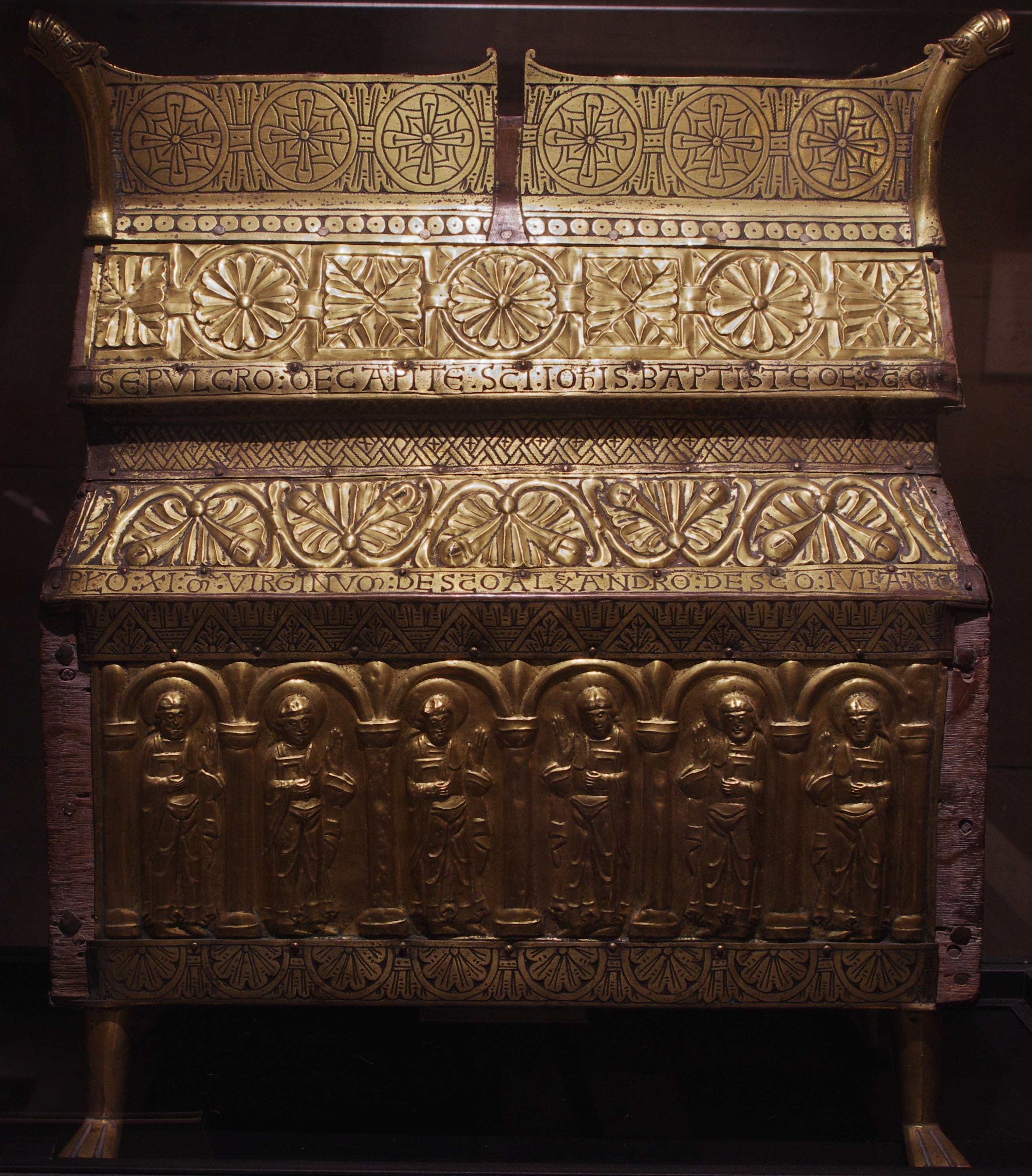 Skrinet från Jäla (swedish:The shrine from Jäla) is a wooden shrine cover in gilded copper plates, that dates back to late 12th century. The latin inscription says that it once contained fragments of John the Baptist's head. The shrine once stood in Jäla church, but is now on display at Västergötlands museum in Skara, Sweden.